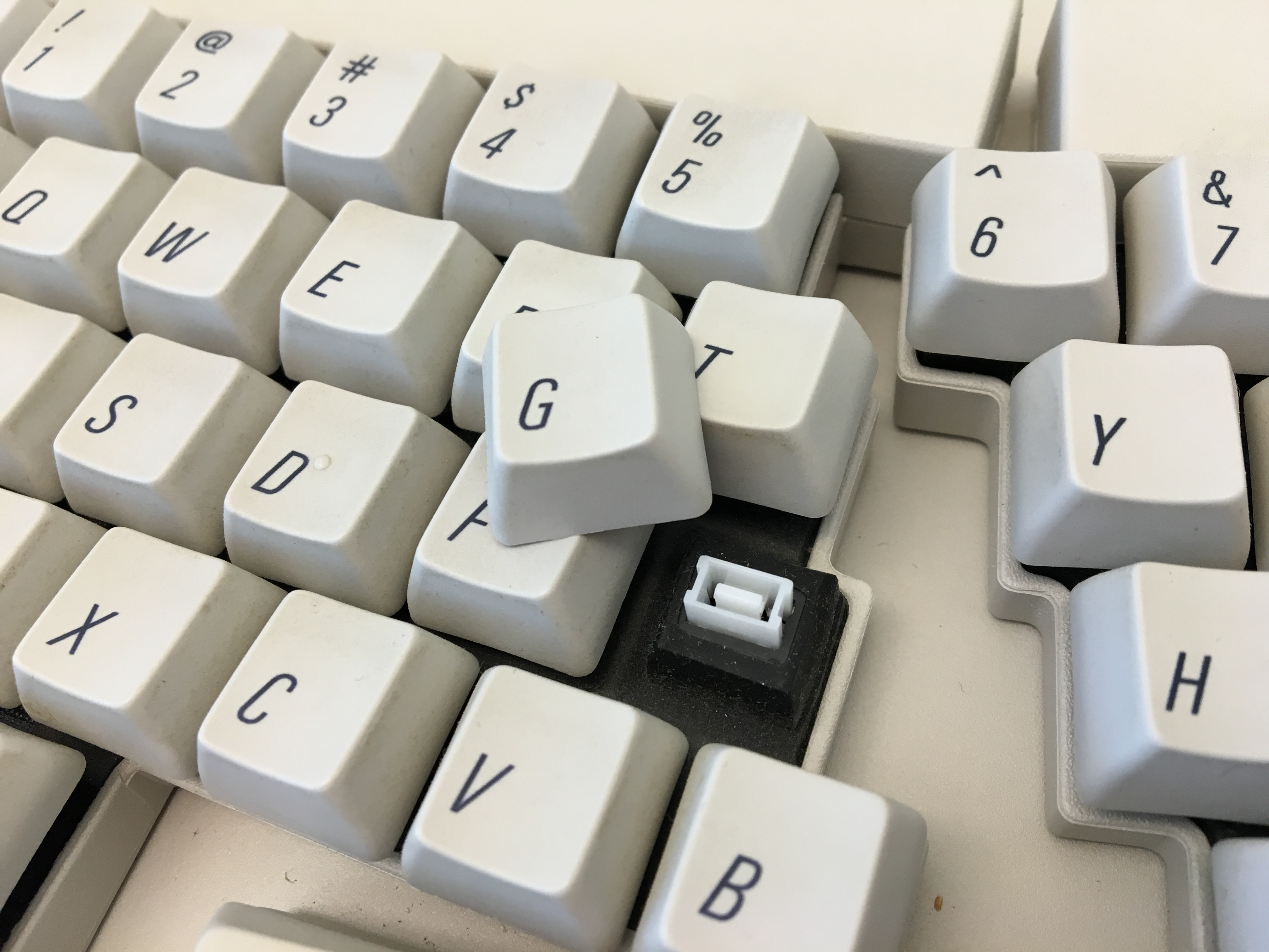 Close-up of an Apple Adjustable Keyboard with one key cap removed, exposing an Alps SKFS switch.